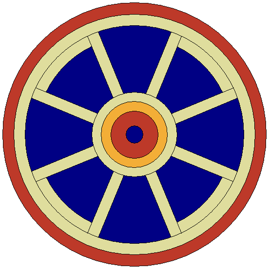 Shield pattern of "Legio III Flavia Salutis" in the early 5th century. Source: Notitia Dignitatum Occ. V.